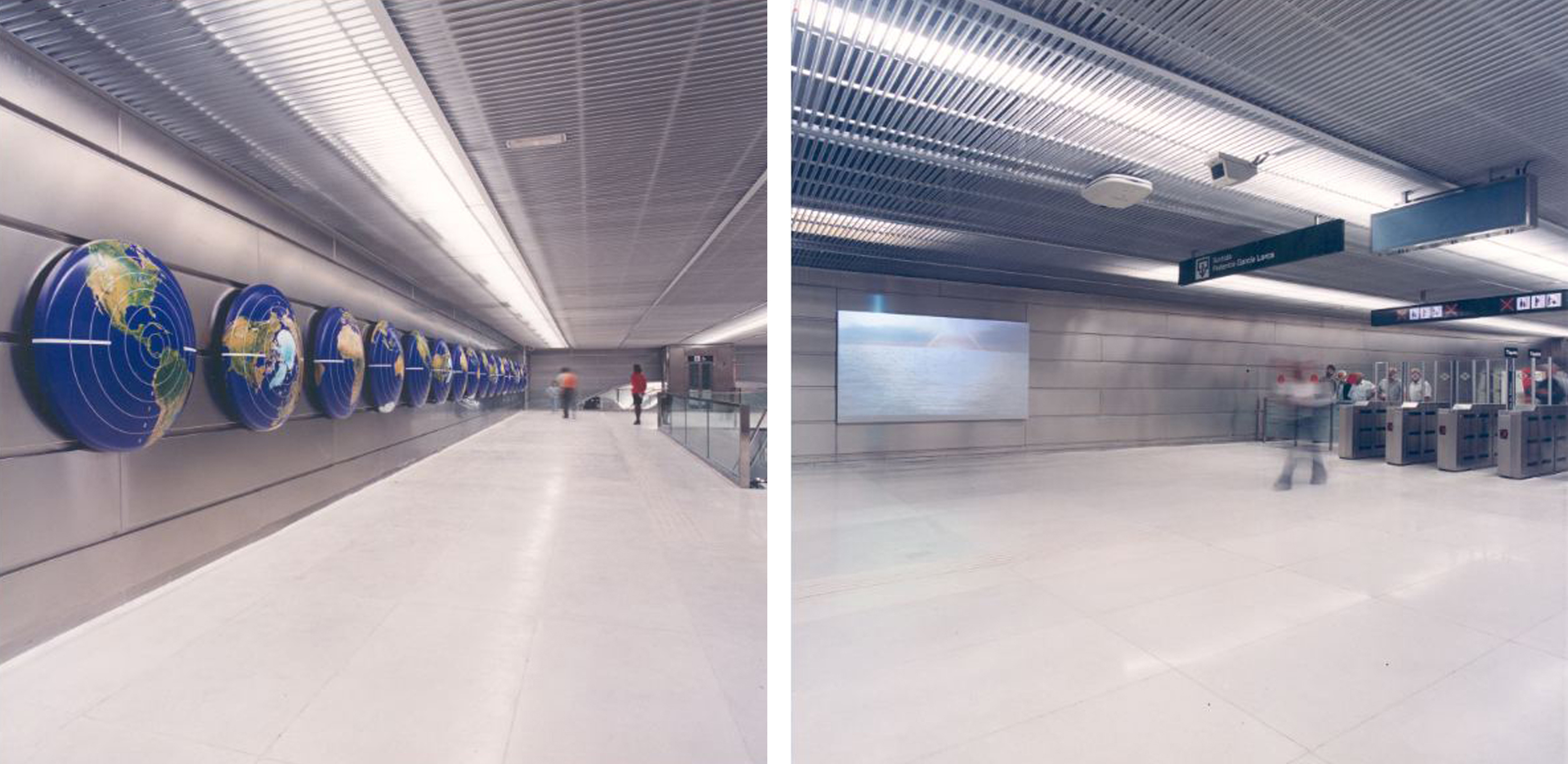 TIR AL MON AMB MAR DE FONS, Shot to the word with sea in the background, Benet Rossell, 2001. Series of 16 bull’s-eye stainless steel and satellite photographs of the earth on vinyl & DVD Projection Mar de fons on stainless steel screen printed Canyelles substation, Barcelona, 2001